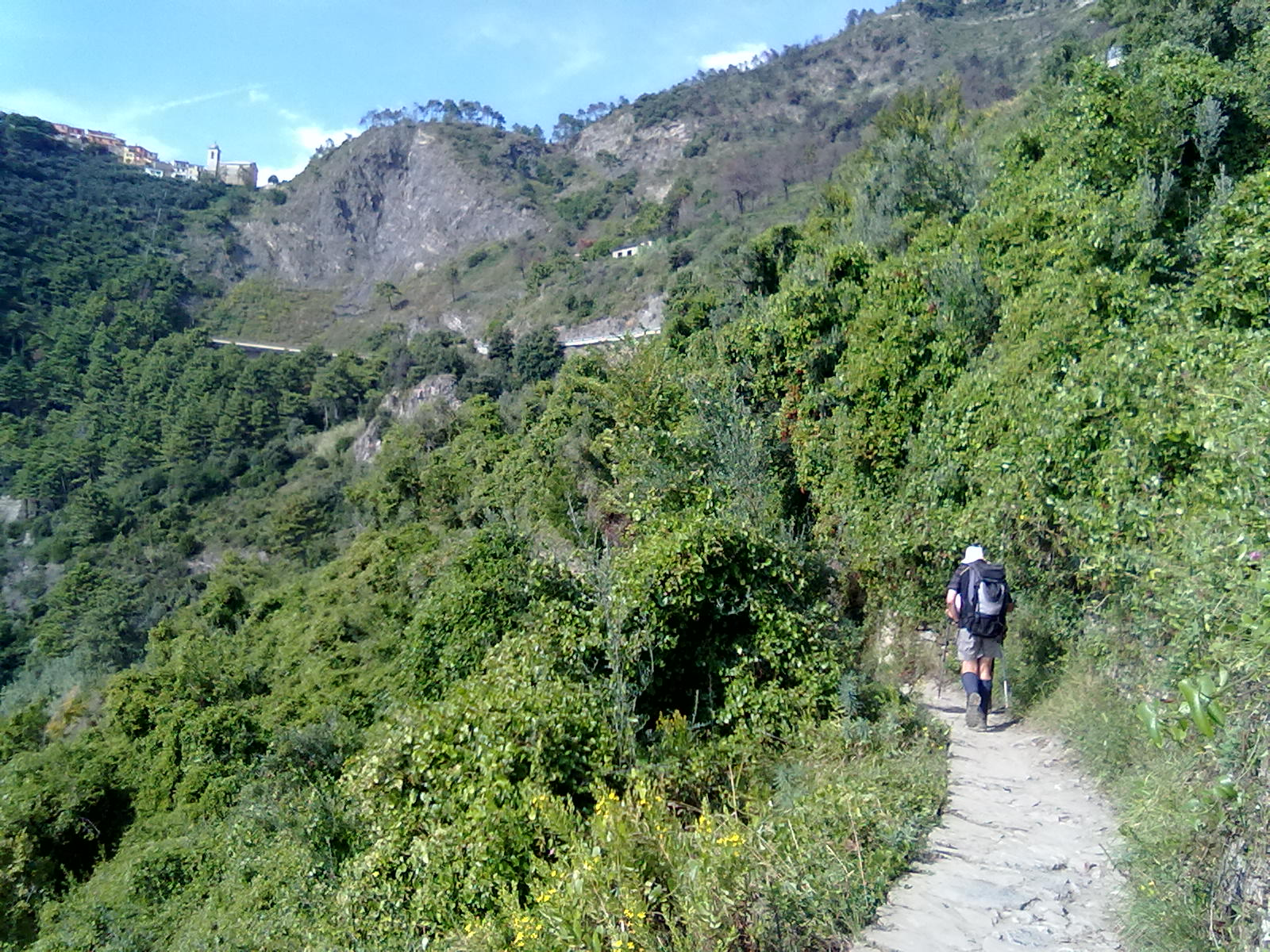 Hiking path Corniglia - Vernazza (Cinque Terre), Province of La Spezia, Italy.